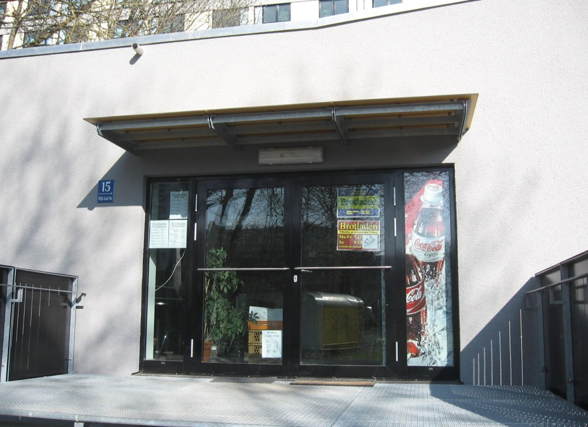 Studentenstadt Freimann in Munich